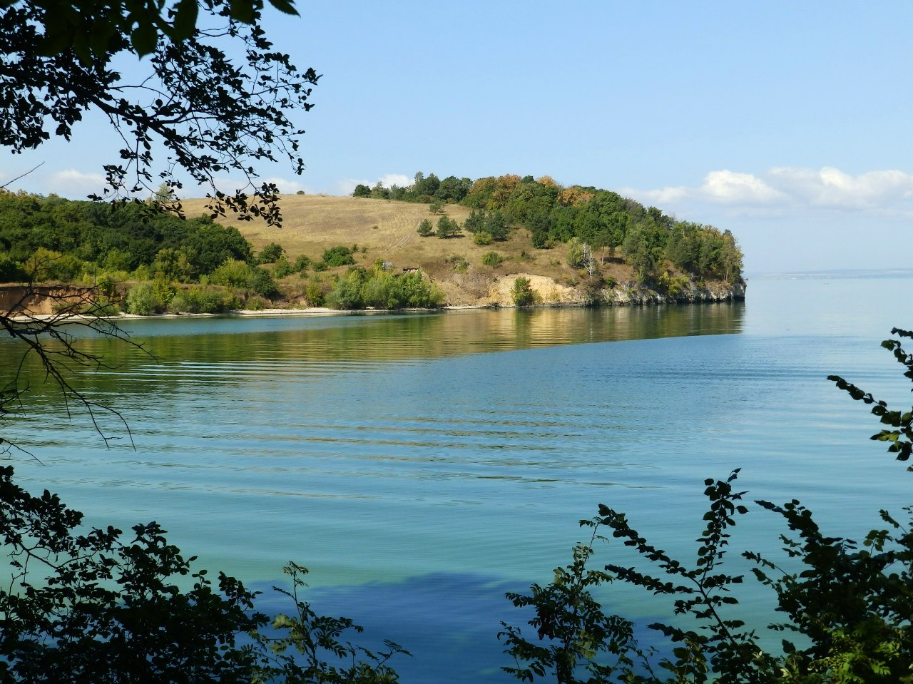 usinski kurgan